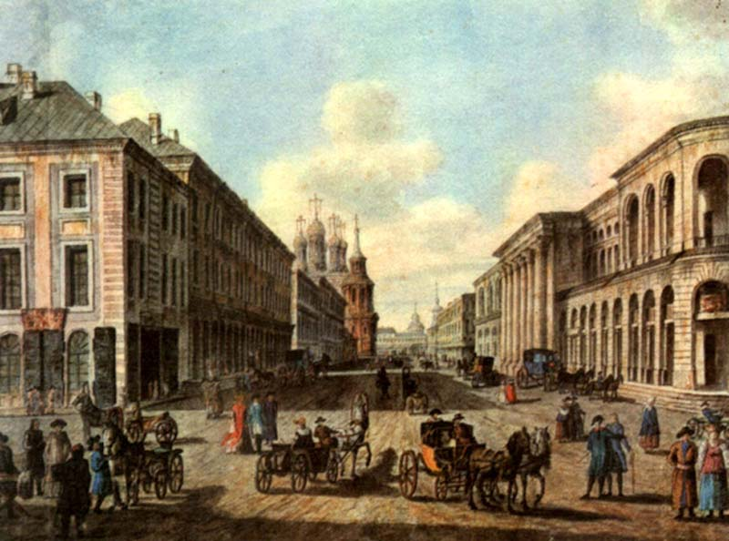 Ilyinka Street in the late 18 century